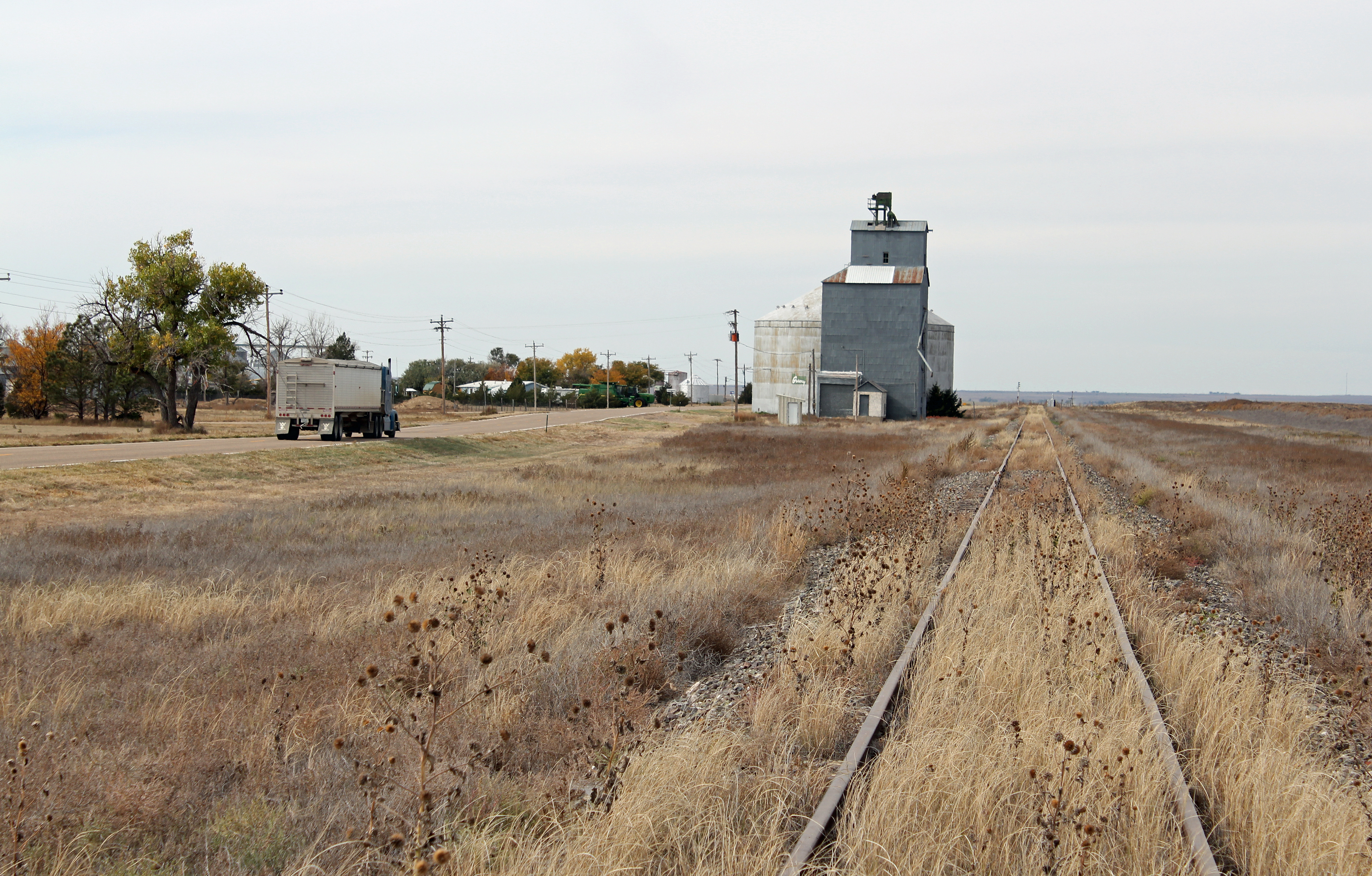 A view of part of Brandon, Colorado, in Kiowa County. On the right are the now-abandoned tracks of the old Missouri Pacific Railroad. In the center is a grain silo and elevator. Colorado State Highway 96 is to the left of the grain elevator, and part of Brandon, Colorado, an unincorporated community, appears on the left.